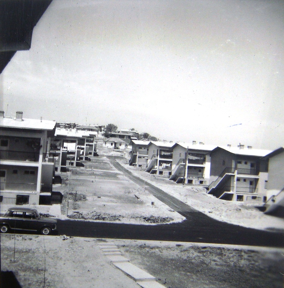 1963 Skopje earthquake: Settlement Przino, 1964 This media file is produced by Wikipedian in Residence in Category:Wikipedian in Residence at DARM in 2016.